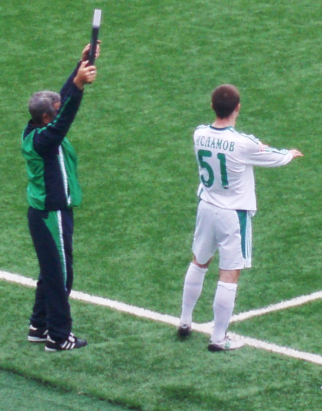 Tarko Islamov substituting in against Amkar (Perm). FC Terek (youth), 5 May 2009.